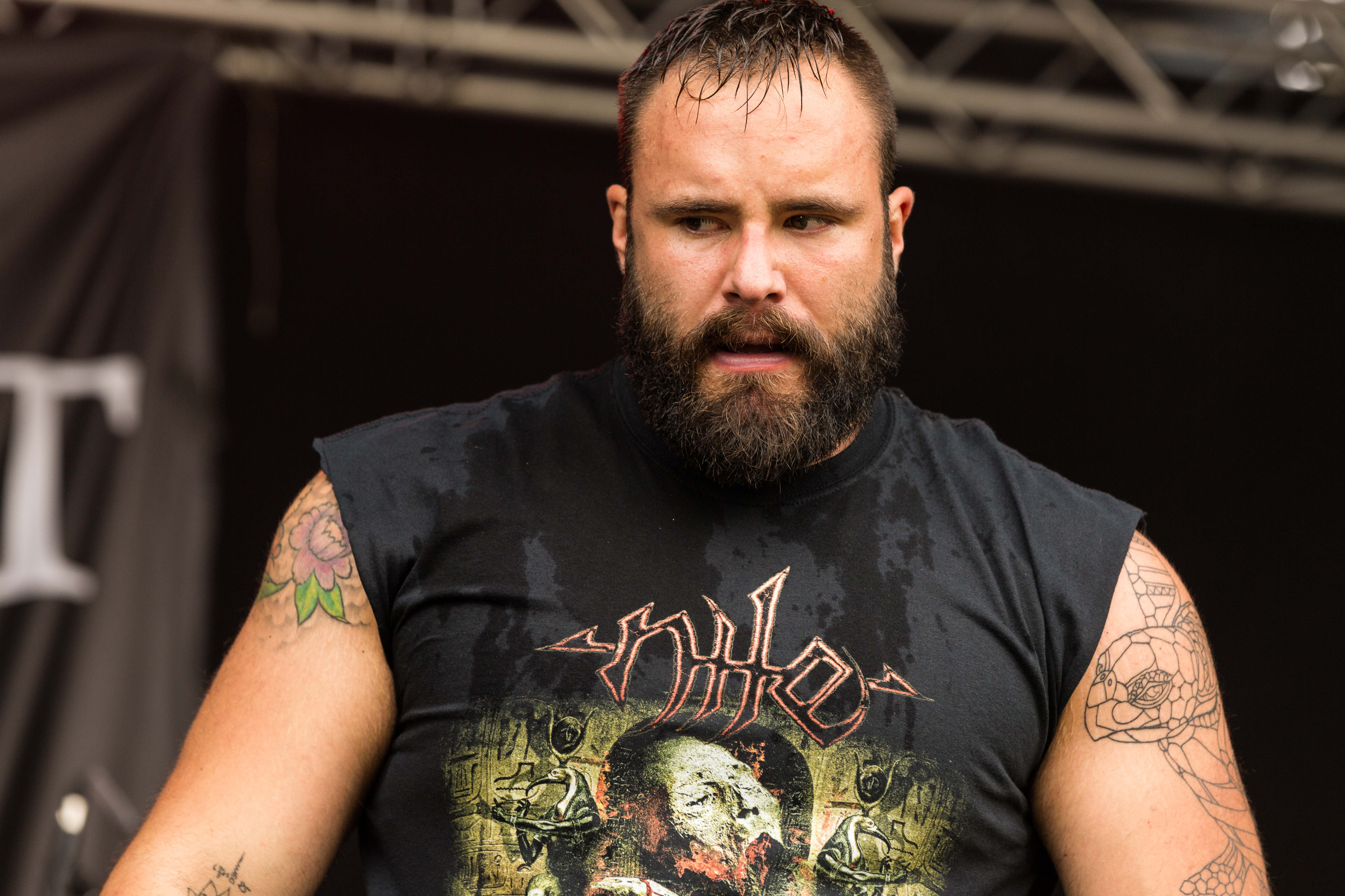 The German metalcore band Virtue Concept at the Metal Frenzy 2017 in Gardelegen/Germany.